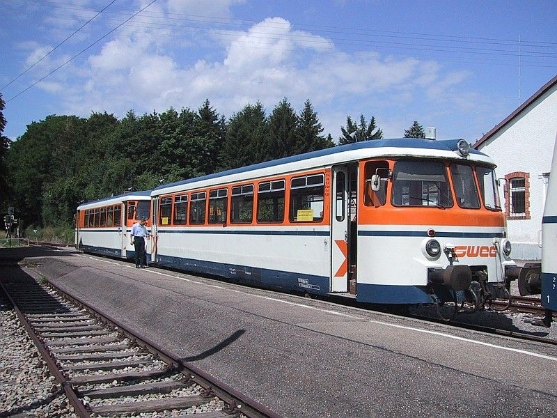 MAN railbus cars on the Neckarbischofsheim–Hüffenhardt railway at Neckarbischofsheim Stadt